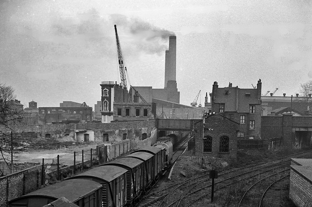 Site of Poplar Station. View eastward, towards site of Blackwall terminus (now Brunswick Wharf Power Station); ex-Great Eastern, Fenchurch St. - Stepney - Millwall Junction - Blackwall line. This was the original rope-worked line of 1840 (steam locomotives from 1846): it lost its passenger service (Millwall Jct. - Blackwall) from 3/5/26 (goods at Blackwall end from 14/11/27, although freight continued to East India Dock until about 1976); the line curving right served the Midland Railway Dock. The Docklands Light Railway (Beckton and Woolwich branches) has been built since 1987 over part of this formation and this is now the site of Blackwall DLR station.